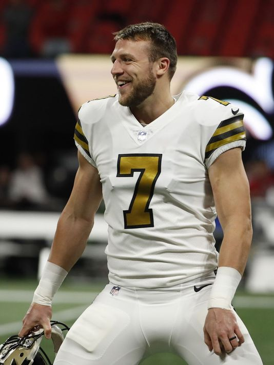 Taysom Hill playing for the Saints